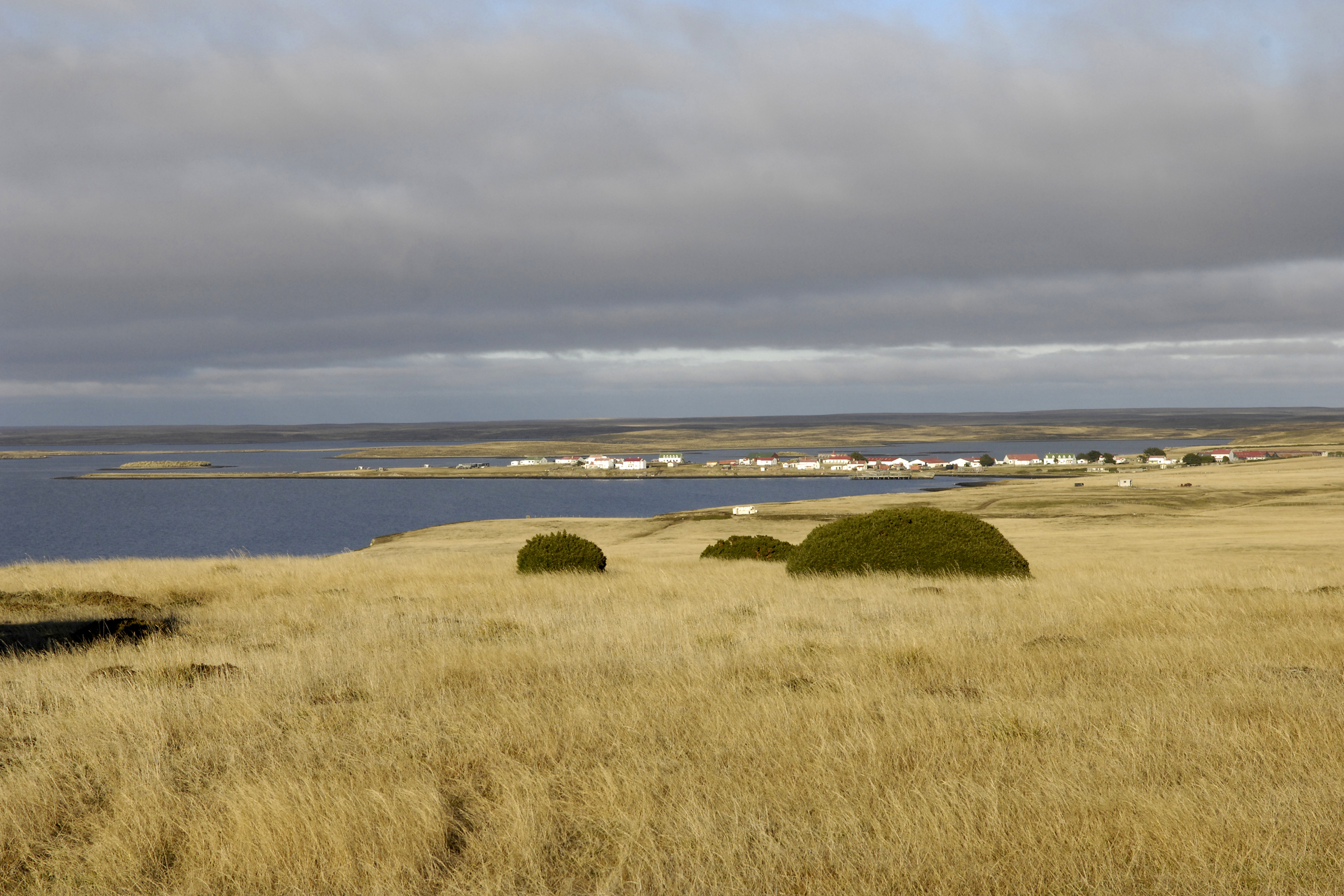 The view south from the 2 Para memorial at Darwin. Goose Green in the distance.